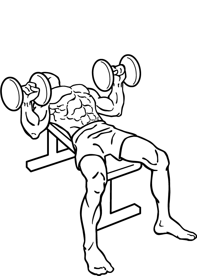 an exercise of chest